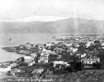 Historical image of Beirut (1880), by Félix Bonfils. With the American College in foreground, and Mount Lebanon Range in backround.